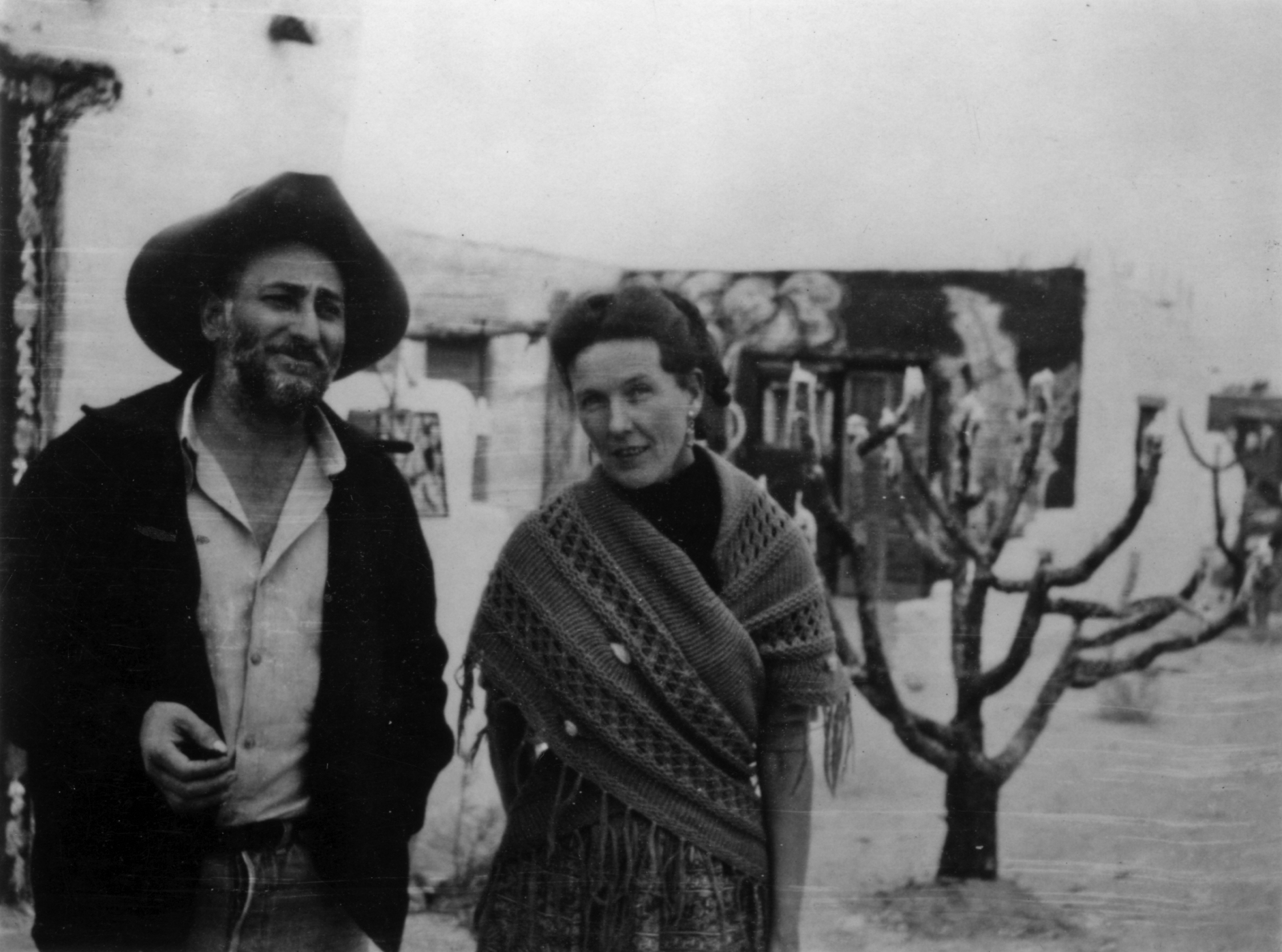 Photo taken at the first studio circa. 1947